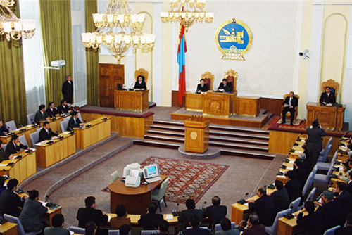 ULAN BATOR. President Putin meeting deputies of the Great State Hural (Parliament).